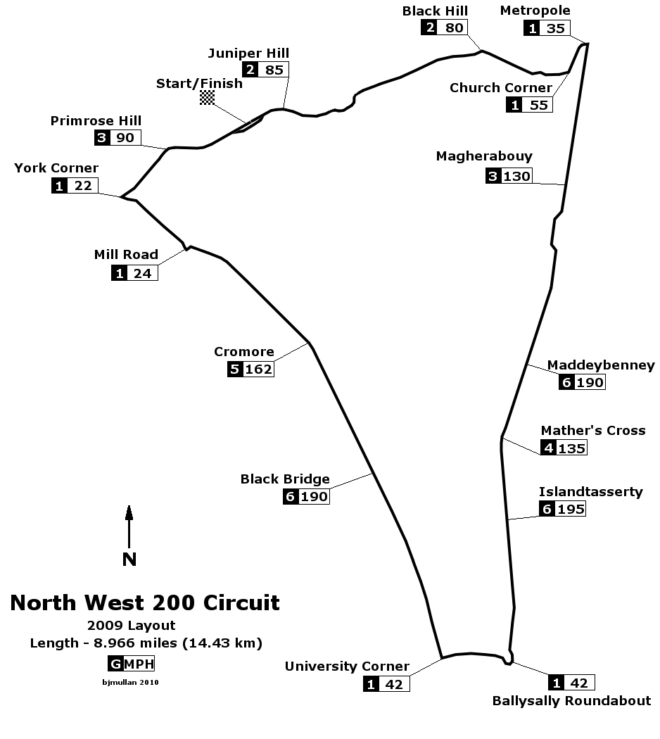 North West 200 Circuit Map 2009